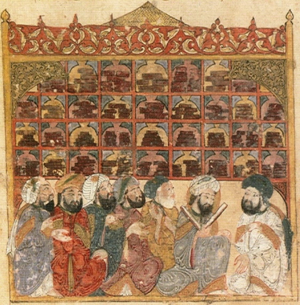 Manuscript with depiction by Yahya ibn Vaseti found in the Maqama of Hariri located at the Bibliotheque Nationale de France. Image depicts a library with pupils in it.